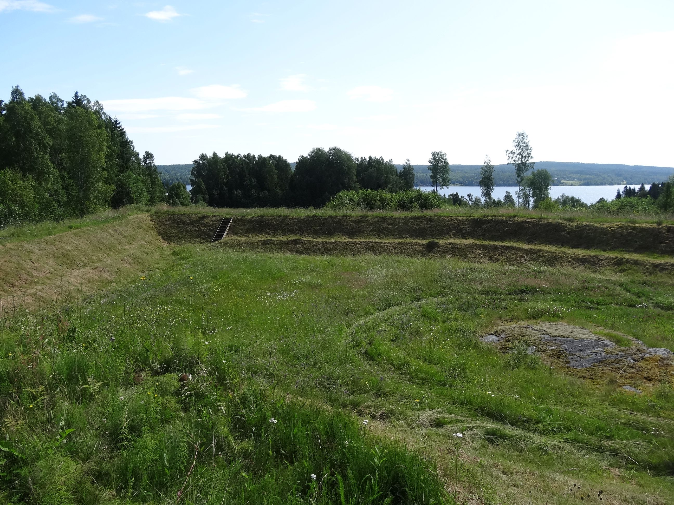 Lake Bysjön, as seen from Eda sconce, Värmland, Sweden.